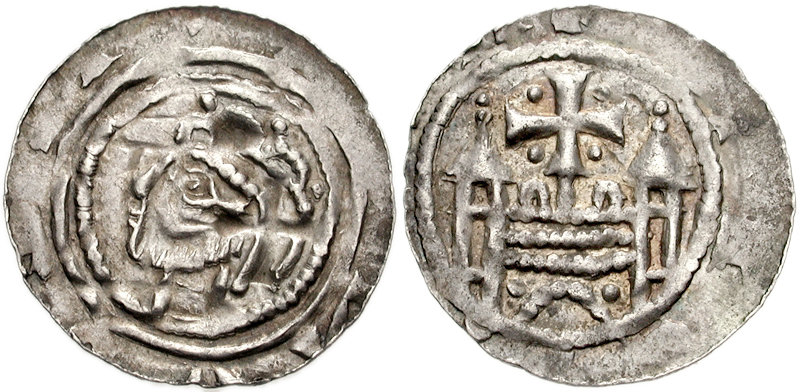 GERMANY, Magdeburg (Reichmünzstatte). Anonymous. 11 century. AR Denar (17mm, 0.73 g, 10h). Magdeburg mint. Crowned bearded head left / Cross within a city view with four towers and wall. Dannenburg 651. Bonhoff 609. Good VF, toned, scarce.